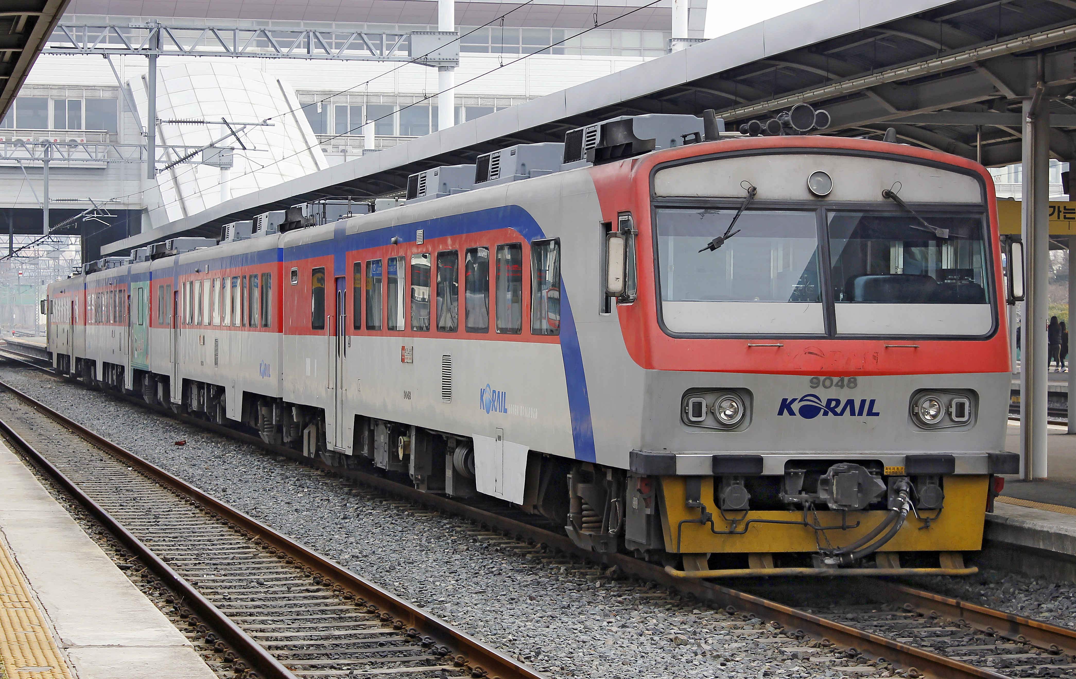 Korail RDC DMU #9048 @Bujeon Station. Not a Budd Rail Diesel Car(RDC).